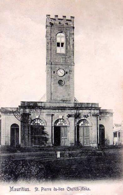 Church of saint pierre